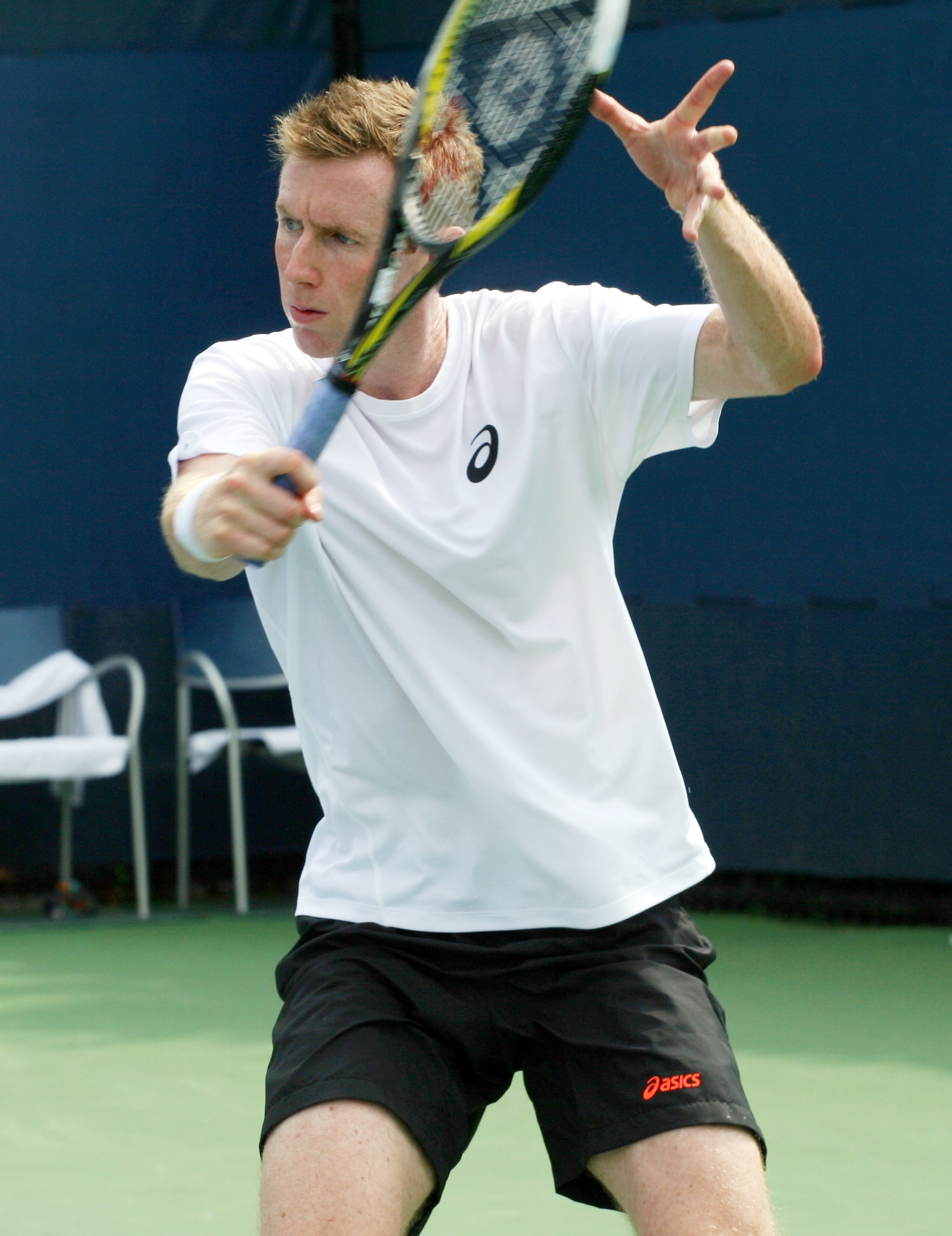 Wednesday, August 28